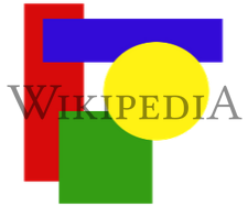 An image with a transparent watermark logo of Wikipedia on it.